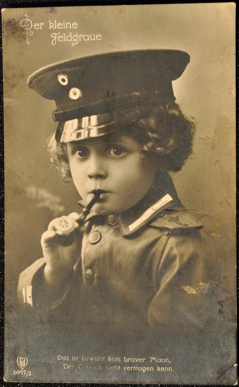 Labeled Postcard from Miss Nördingen to her fiancé John Ostermeier and returns. He served in the first Army Corps, 1st Division, Second Infantry Regiment.